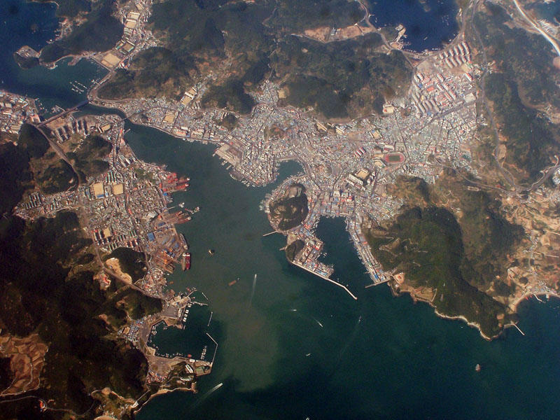 TongYeong City as seen from the airplane.